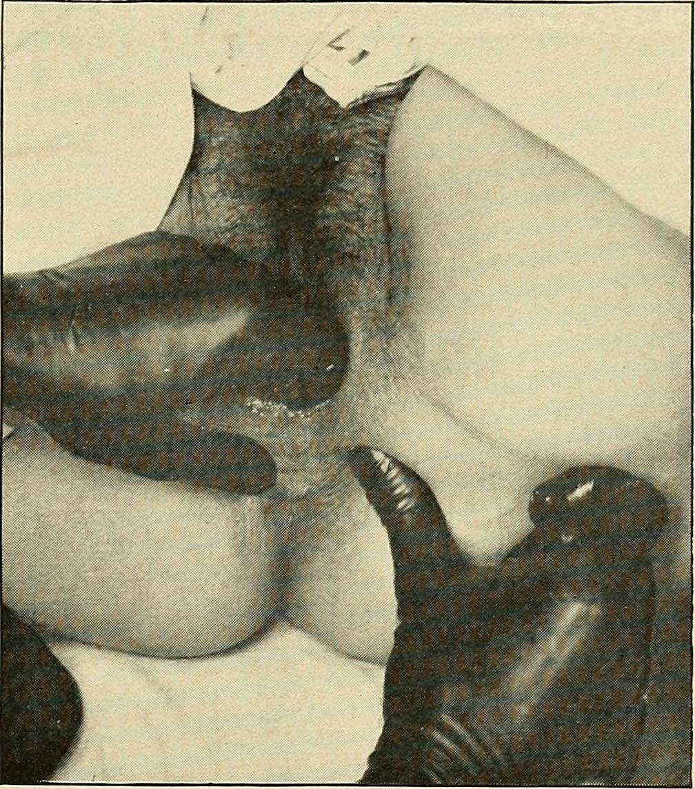 The diagnosis and treatment of diseases of women